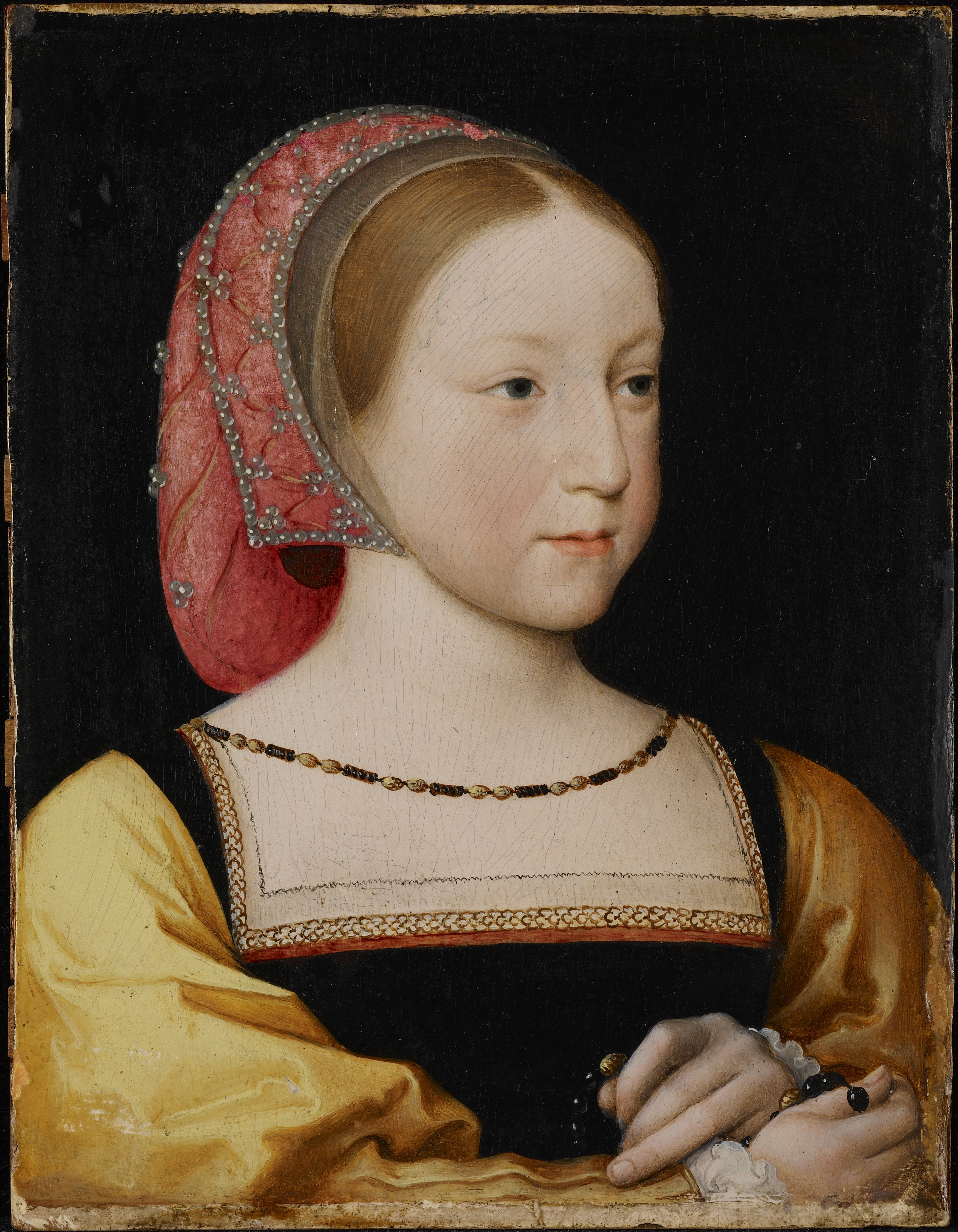 Portrait of Princess Charlotte, daughter of King Francis I of France. Sitter was about seven years old at the time of this portrait, she died at the age of eight.